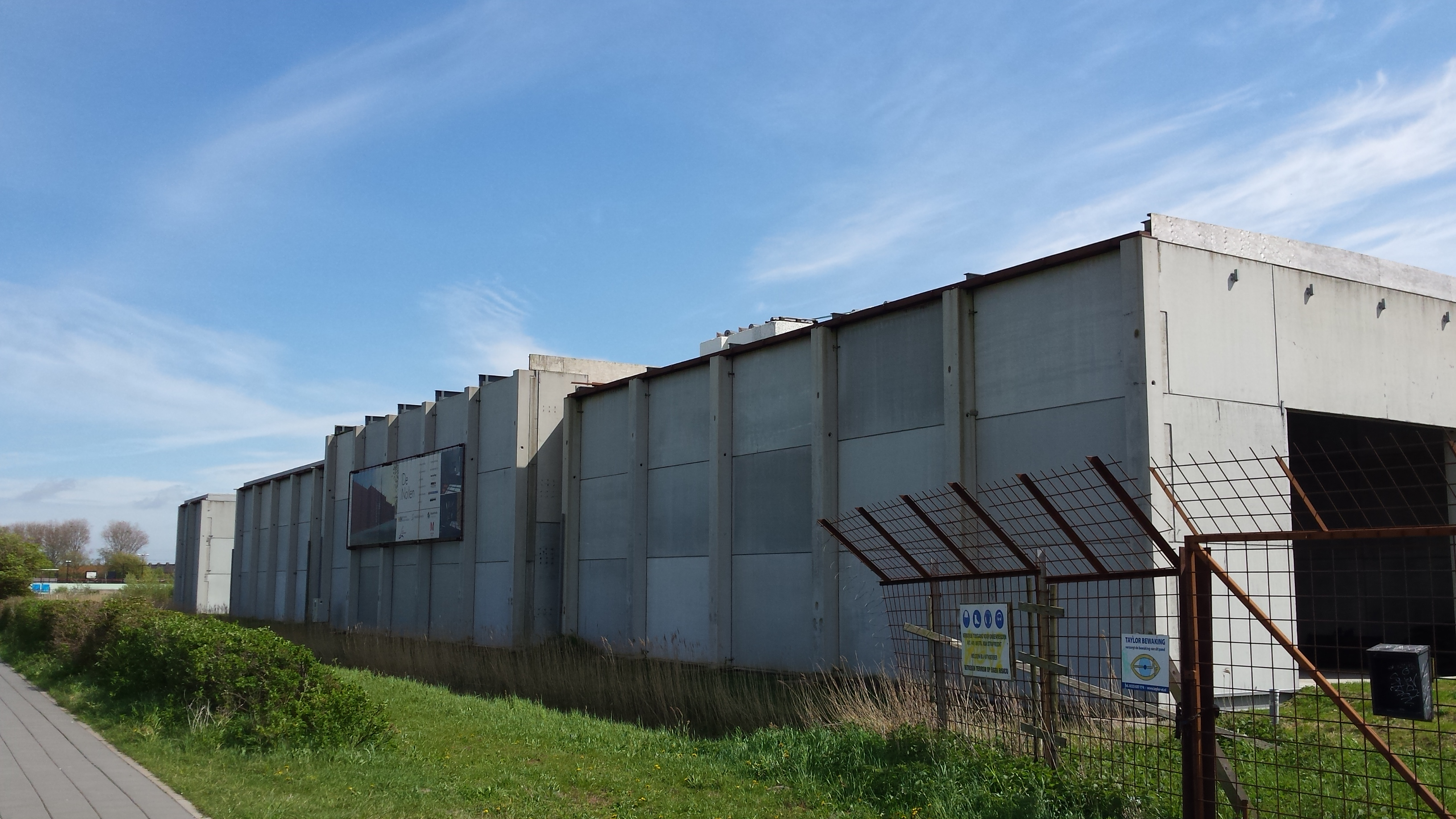 Unfinished museum De Nollen in Den Helder